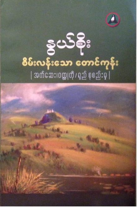 Picture of "Selected Works of Nwe Soe", a collection reprint of notable short stories by Nwe Soe, a Burmese writer and academic